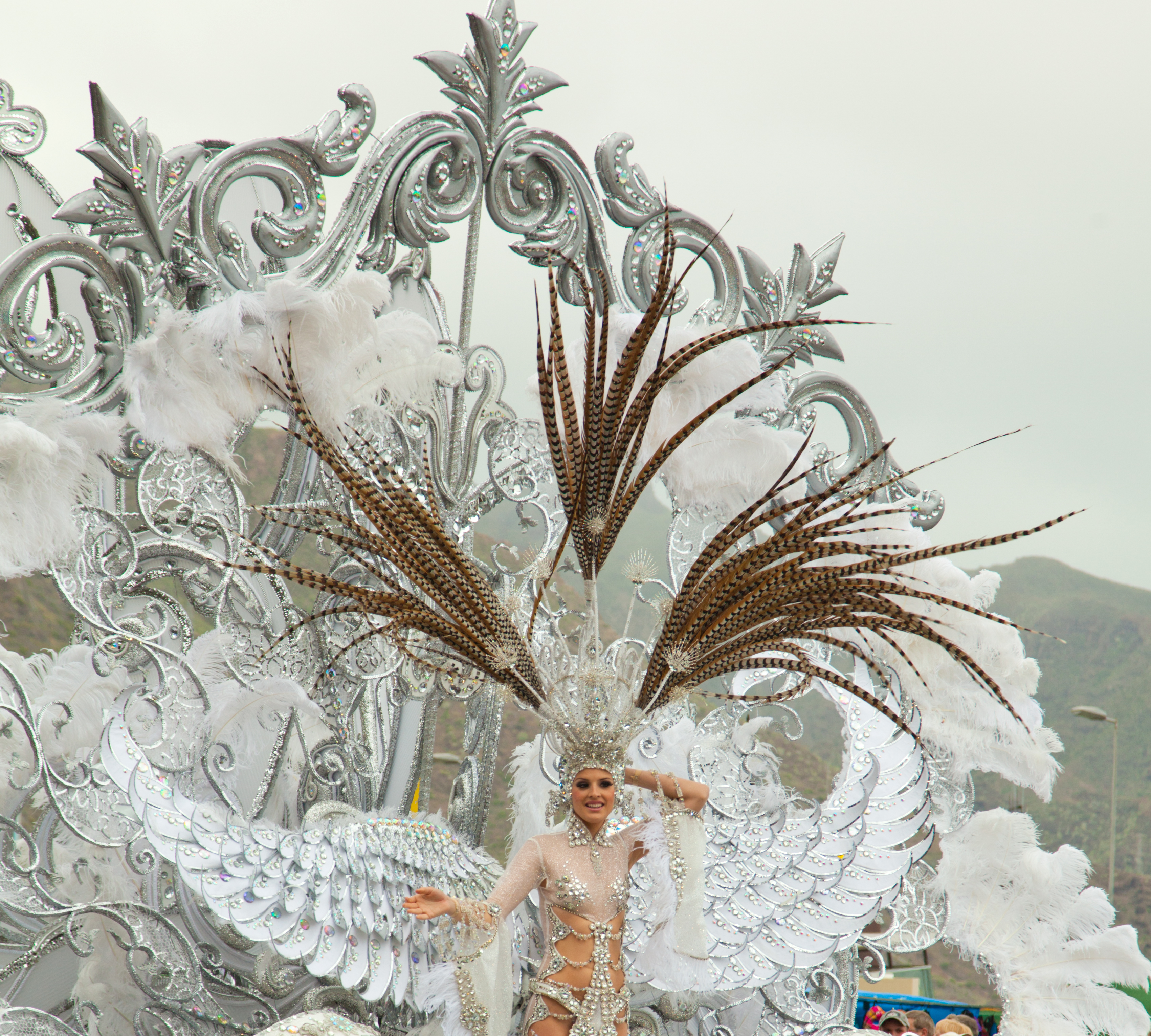 This is a photography of a Folklore festival in Spain (Wikidata id Q815872).